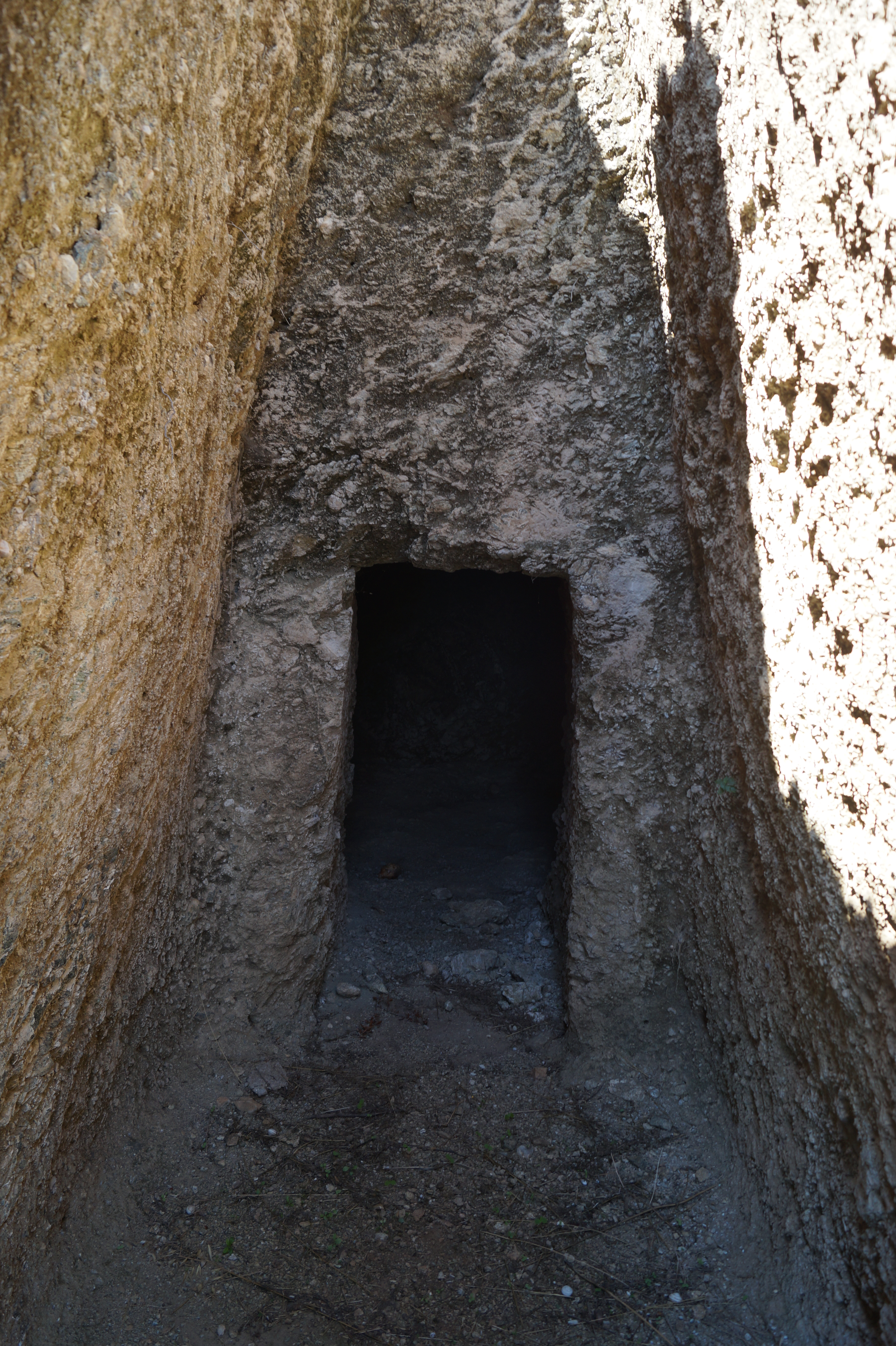 Palea Epidavros, Argolis, Greece: Mycenaean Cemetery of Paleo Epidavros, entrance (stomion) of chamber tomb which is named on this plan as tomb E.